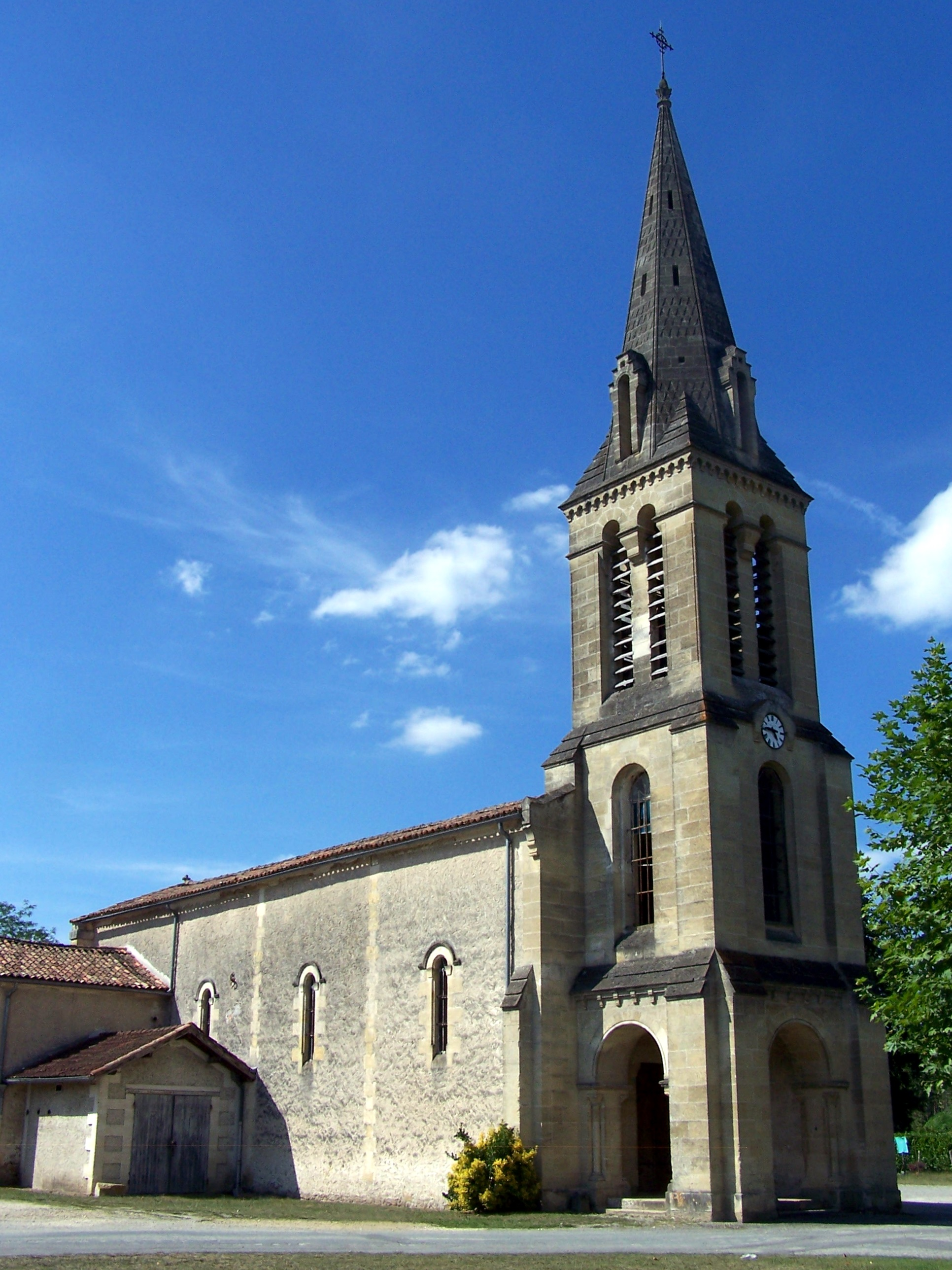 Church of Louchats (Gironde, France)